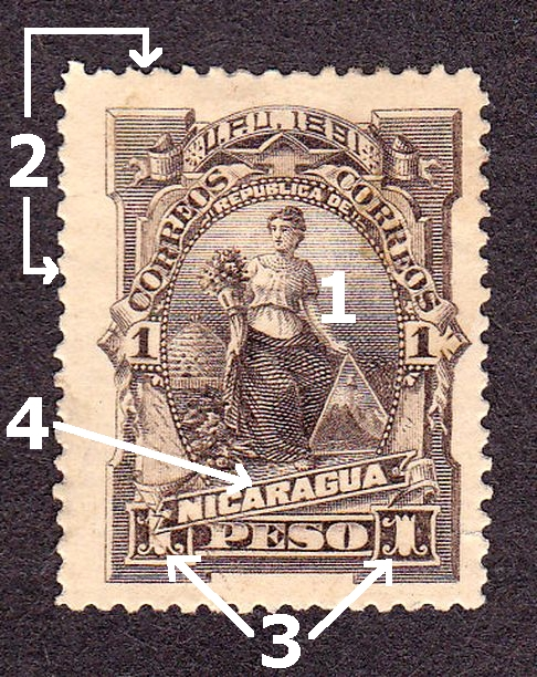 Nicaragua postage stamp, 1891, with number designations to serve as stamp reference points, per image caption descriptions.